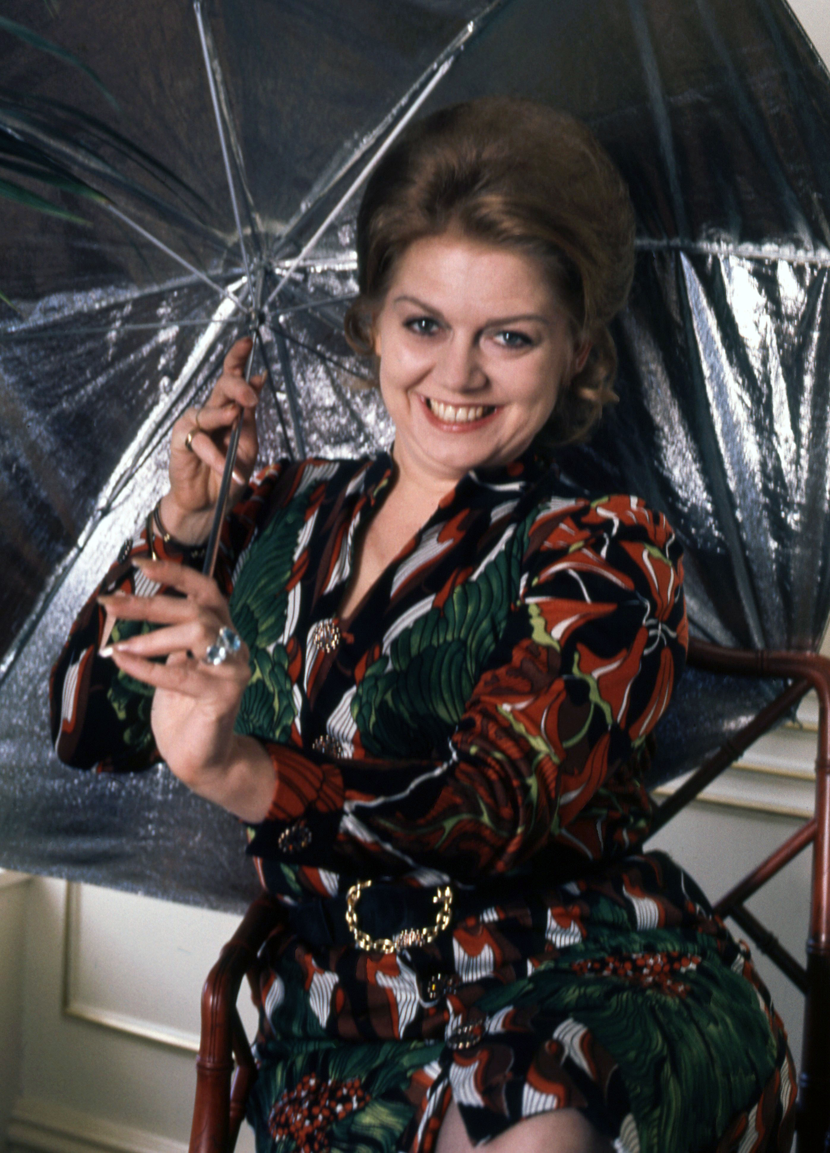 Elena Souliotis at the Carlton Tower Hotel, London